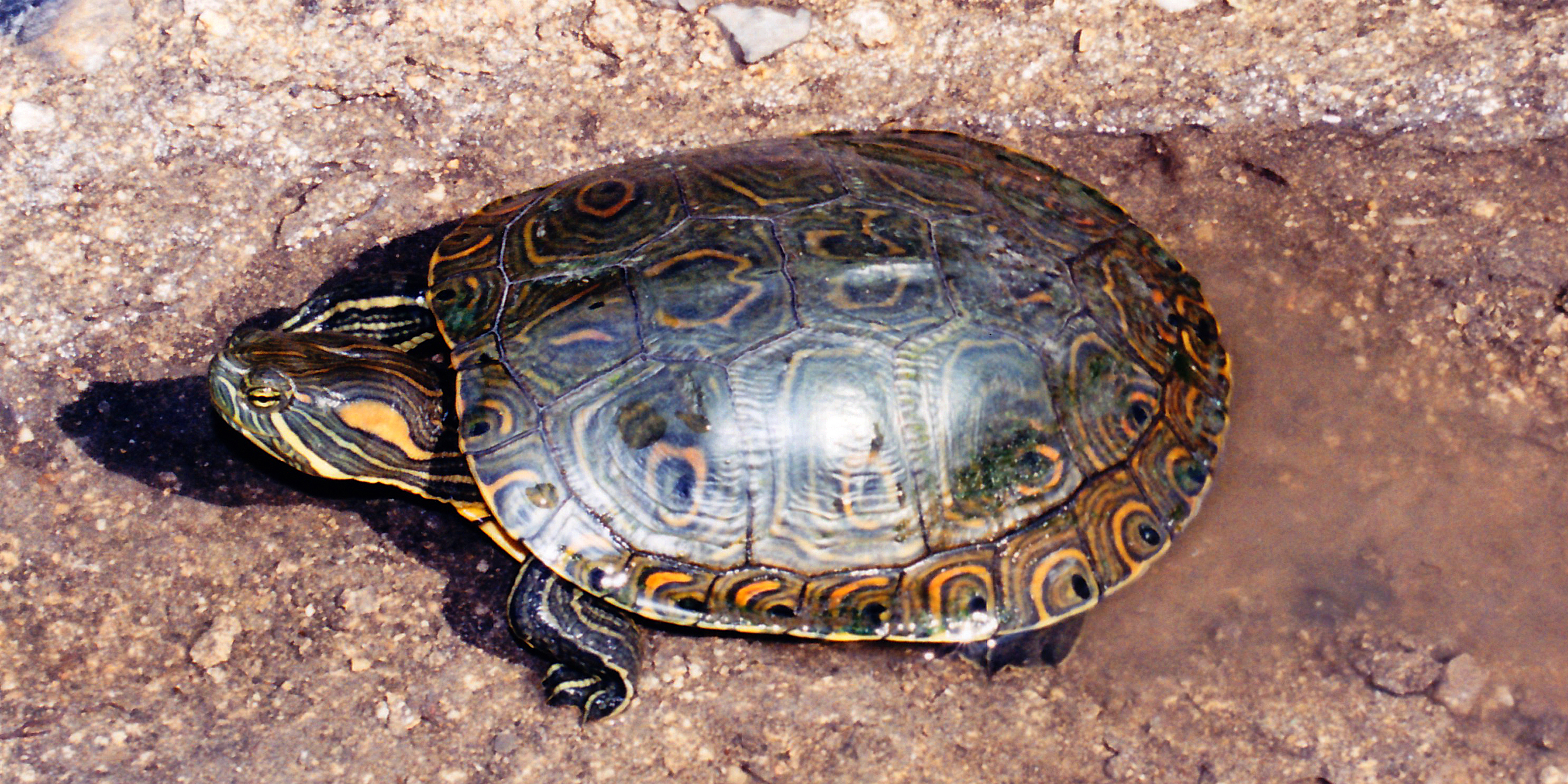 Mesoamerican Slider (Trachemys venusta cataspila), Municipality of Ocampo, Tamaulipas, Mexico. Photographed on 22 September 2004 by William L. Farr. This image was originally photographed with film and later scanned from a print.